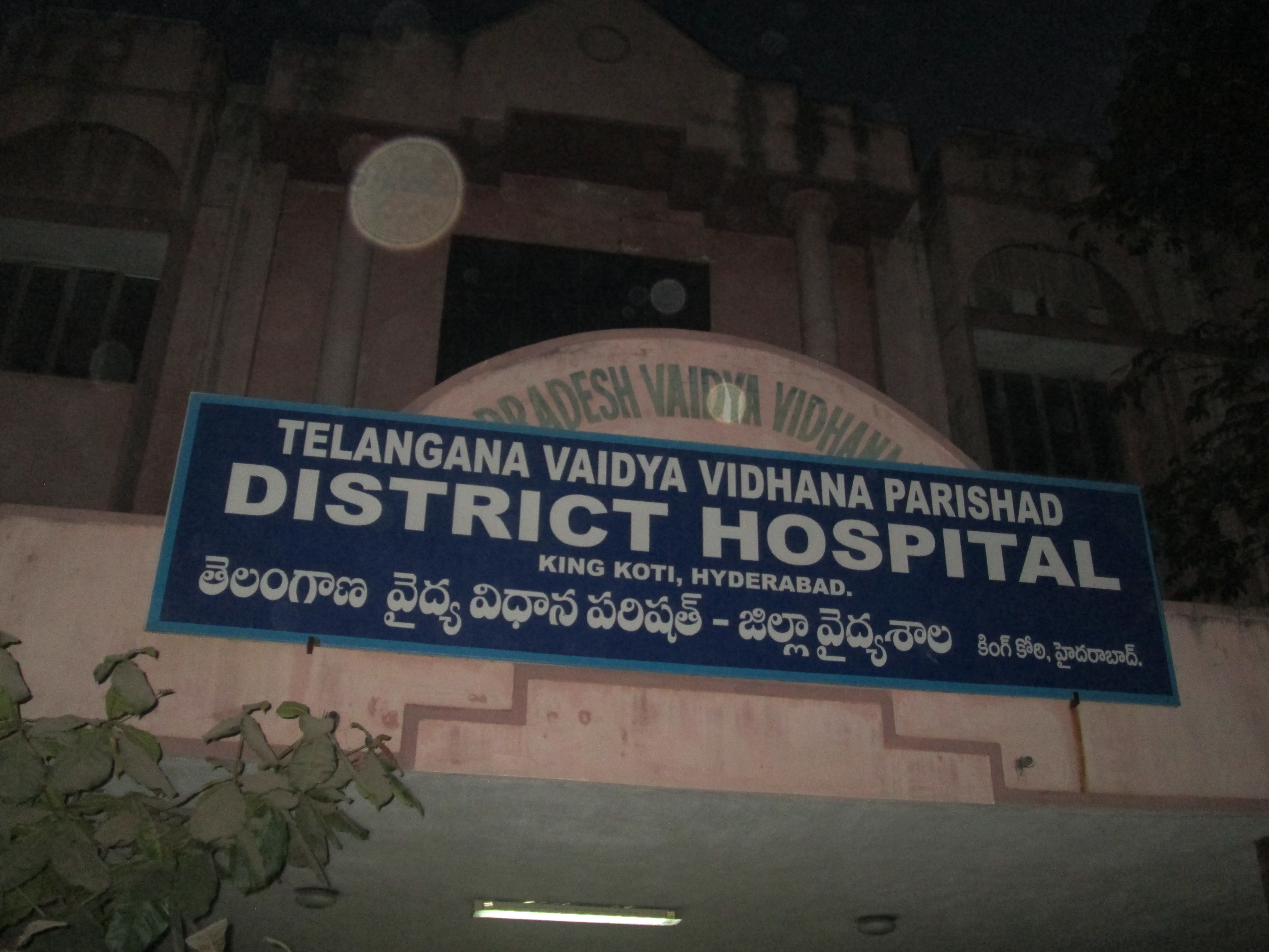 District Hospital, Hyderabad, which was once part of Nizam's King Kothi Palace, Hyderabad